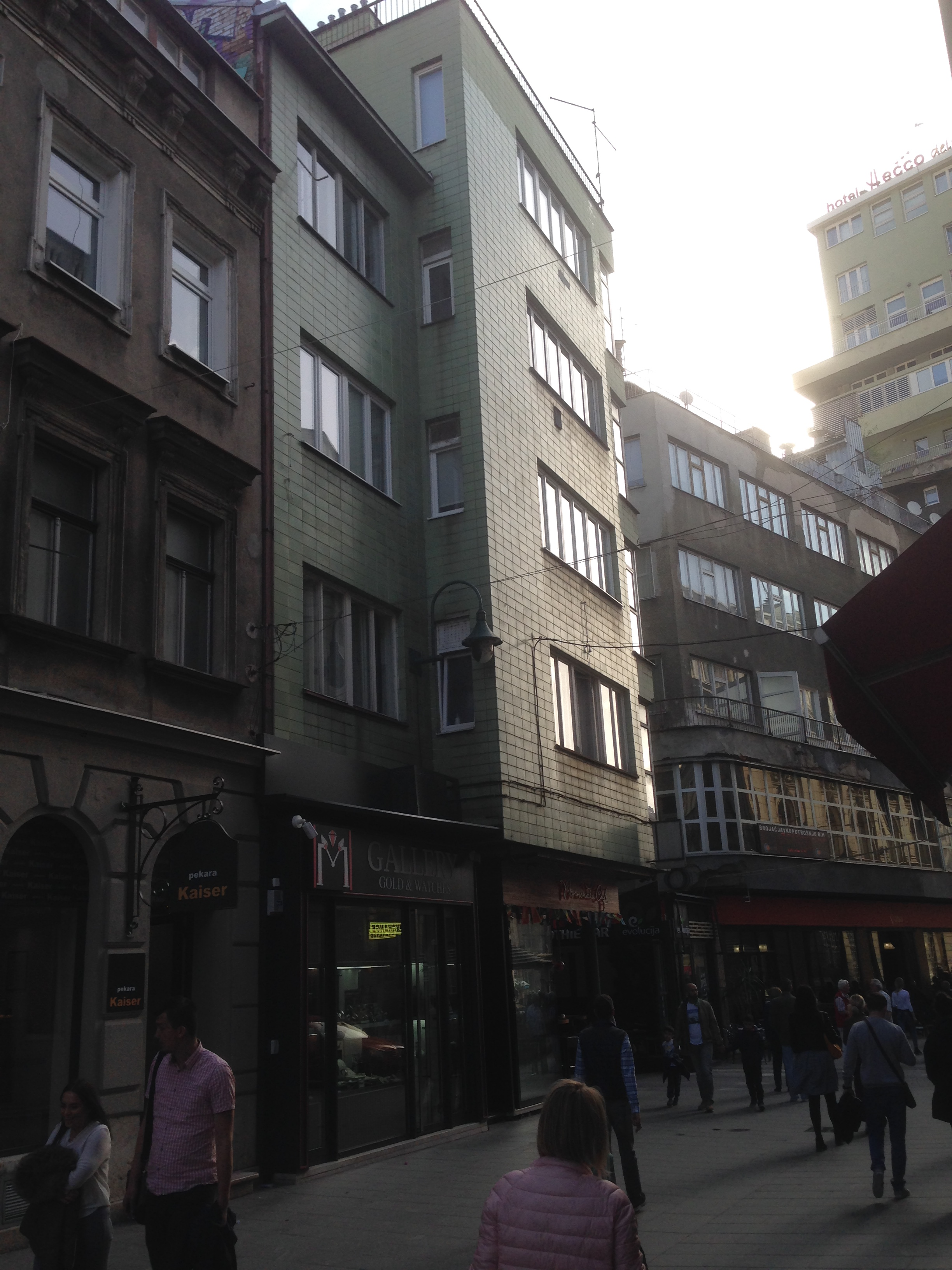 Objesct architeture moderne- Reuf and Muhamed Kadić